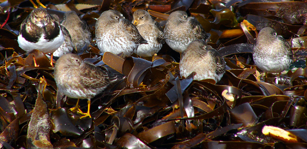 Calidris maritima (Helgoland/Düneand one Arenaria interpres at left